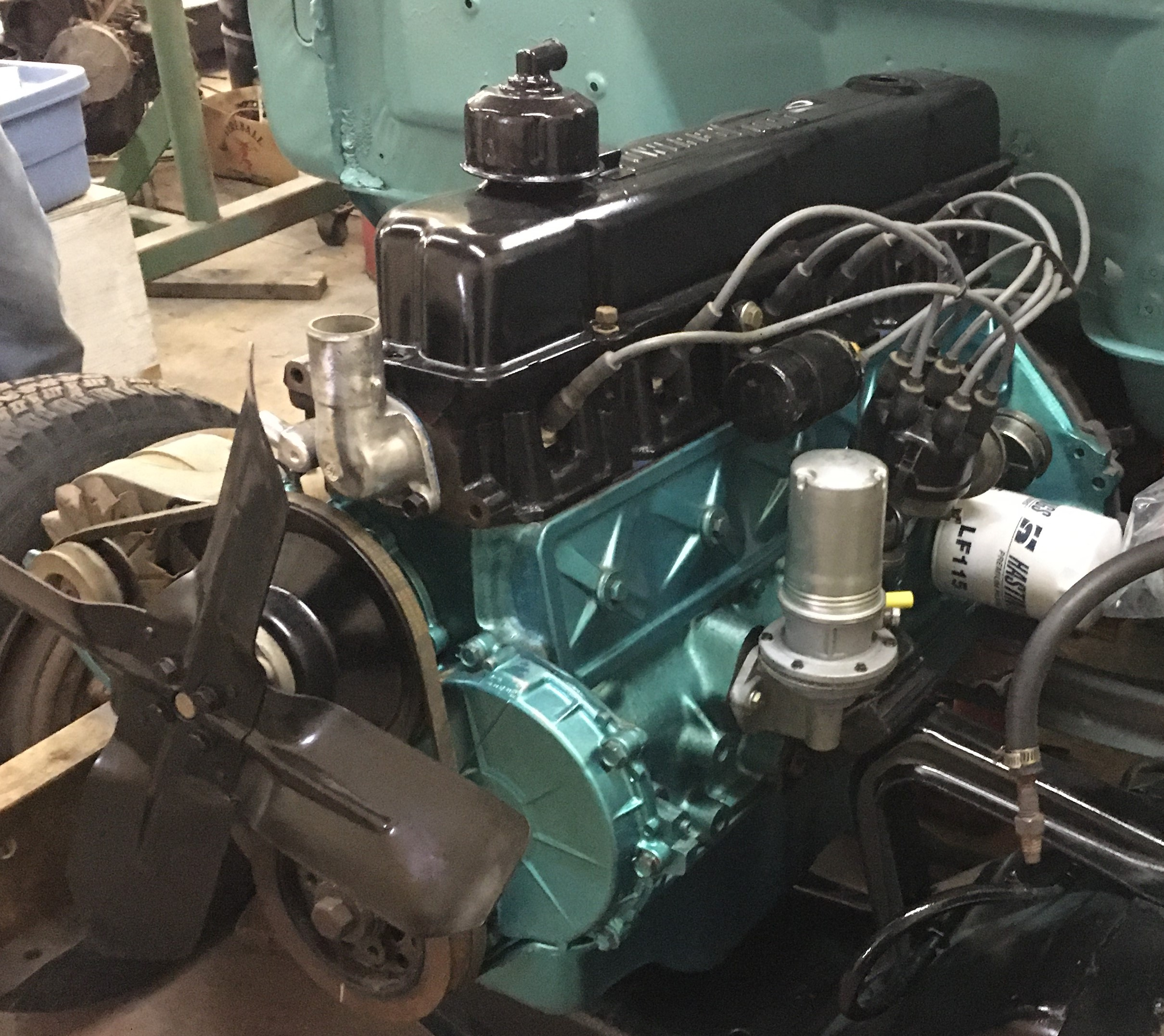 Ford 240-6 in a 1969 f100